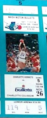 A ticket for a November 26, 1988 National Basketball Association game featuring the Washington Bullets versus the Charlotte Hornets at the Charlotte Coliseum.